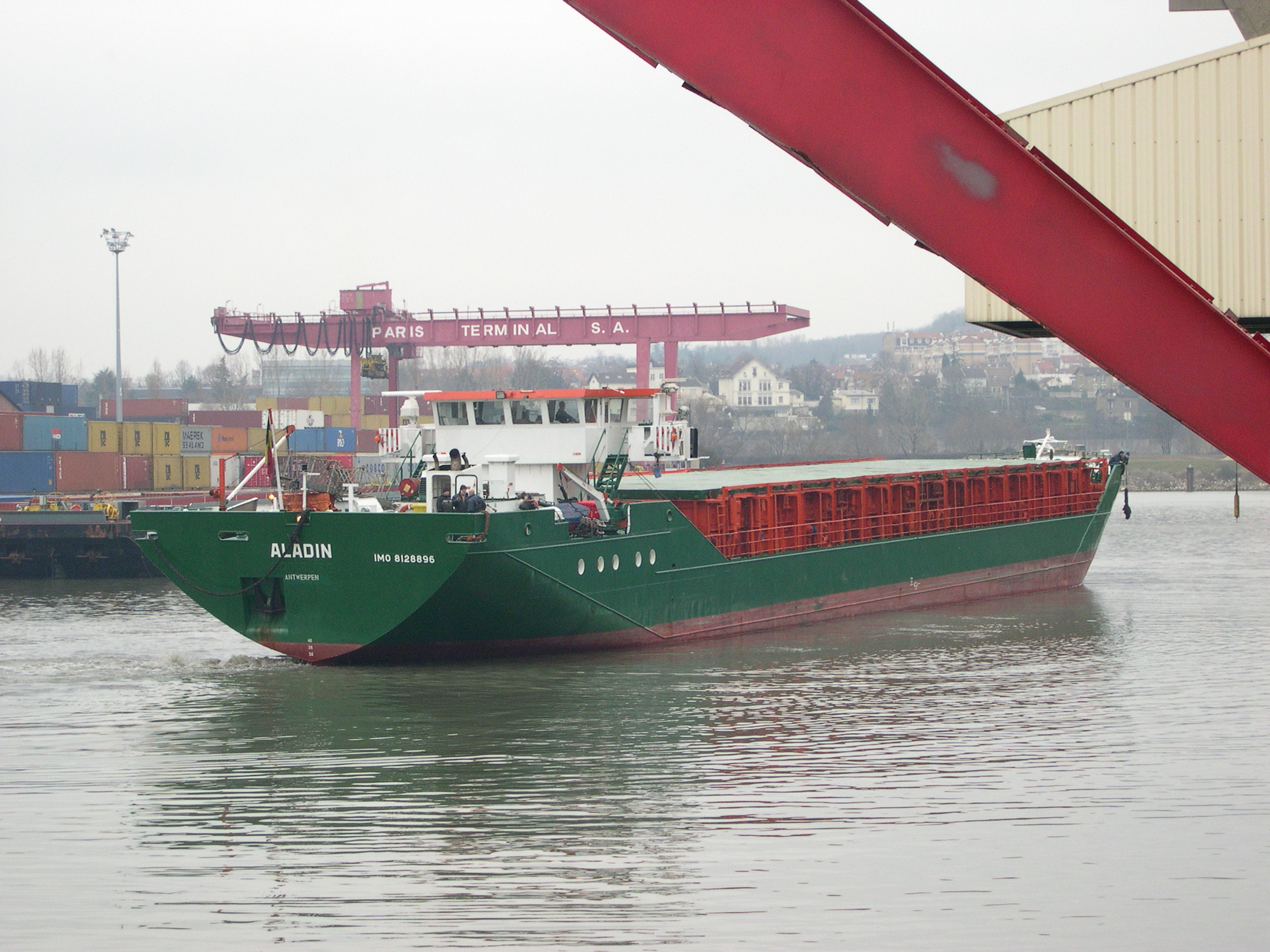 Sea and river coaster arriving to Gennevilliers port near Paris, France